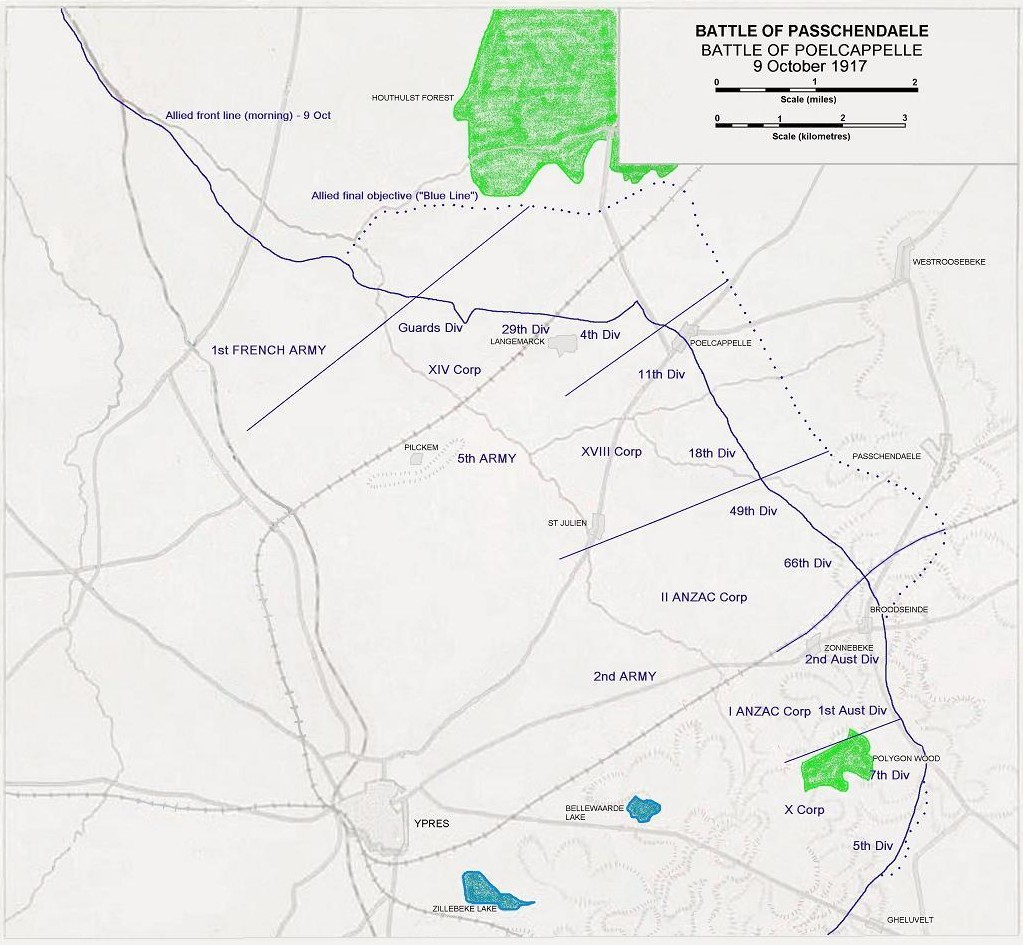 Map of Battle of Poelcappelle, 1917, showing Allied forces, their starting line, and their objectives. References - Terrain: Map of Ypres/Cambrai from Frontline: Map of Ypres from Australian War Memorial Website: Prior, Robin & Wilson, Trevor Passchendaele: The Untold Story, 1996 Yale University Press. ISBN: 0-300-06692-9 Objectives: Page 885, Volume IV - The Australian Imperial Force in France: 1917, C.E.W Bean, 1933